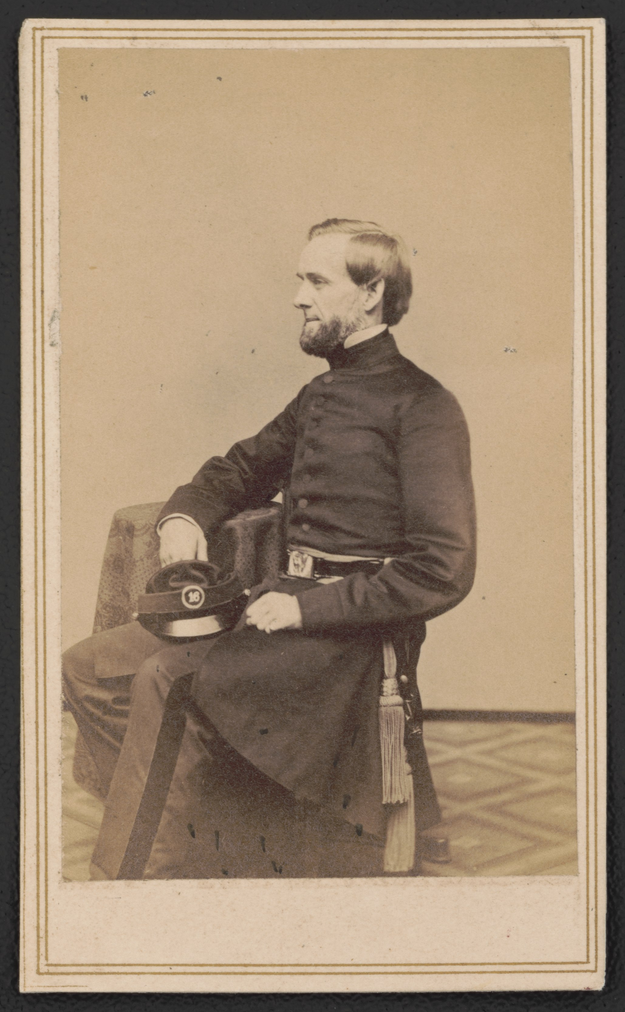 Title: Chaplain Arthur B. Fuller of 16th Massachusetts Infantry Regiment in uniform] / Silsbee, Case & Co., photographic artists, 299-1/2 Washington Street, Boston. Case & Getchell from Dec. 3d, 1862 Abstract/medium: 1 photograph : albumen print on card mount ; mount 11 x 6 cm (carte de visite format)